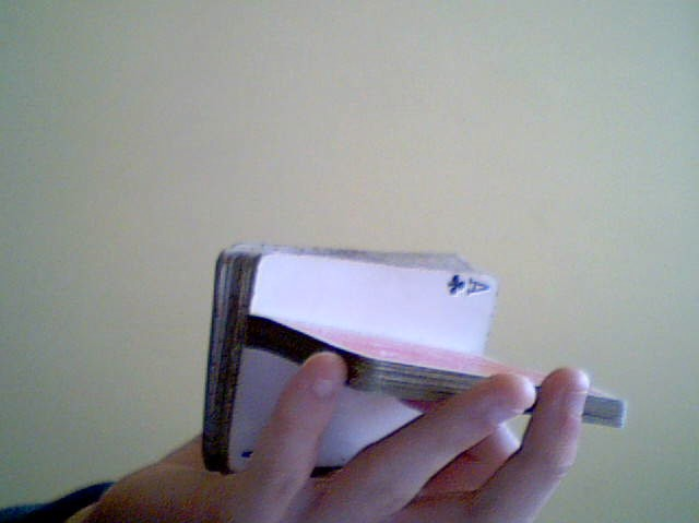 Shows the steps in a Charlier one-handed cut. Intended to replace the walkthrough on the Wikipedia page.